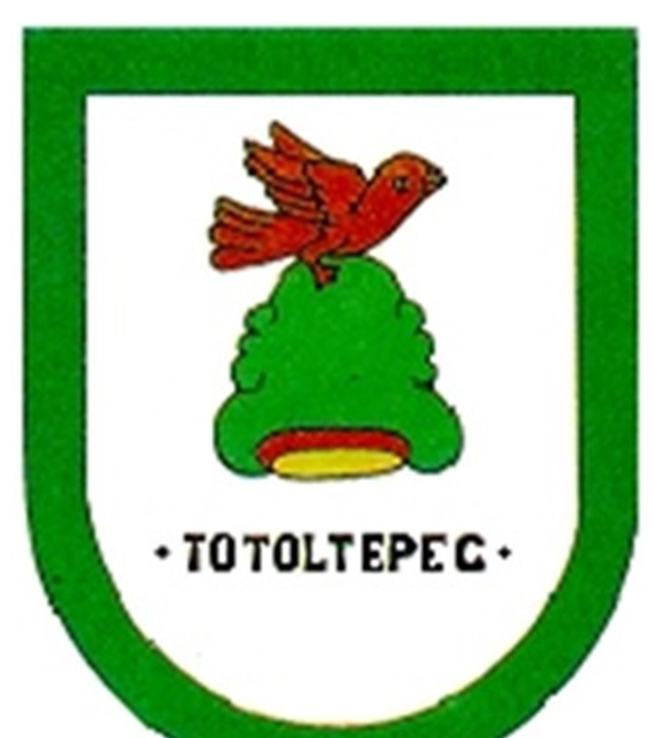 Glifo de la fundación